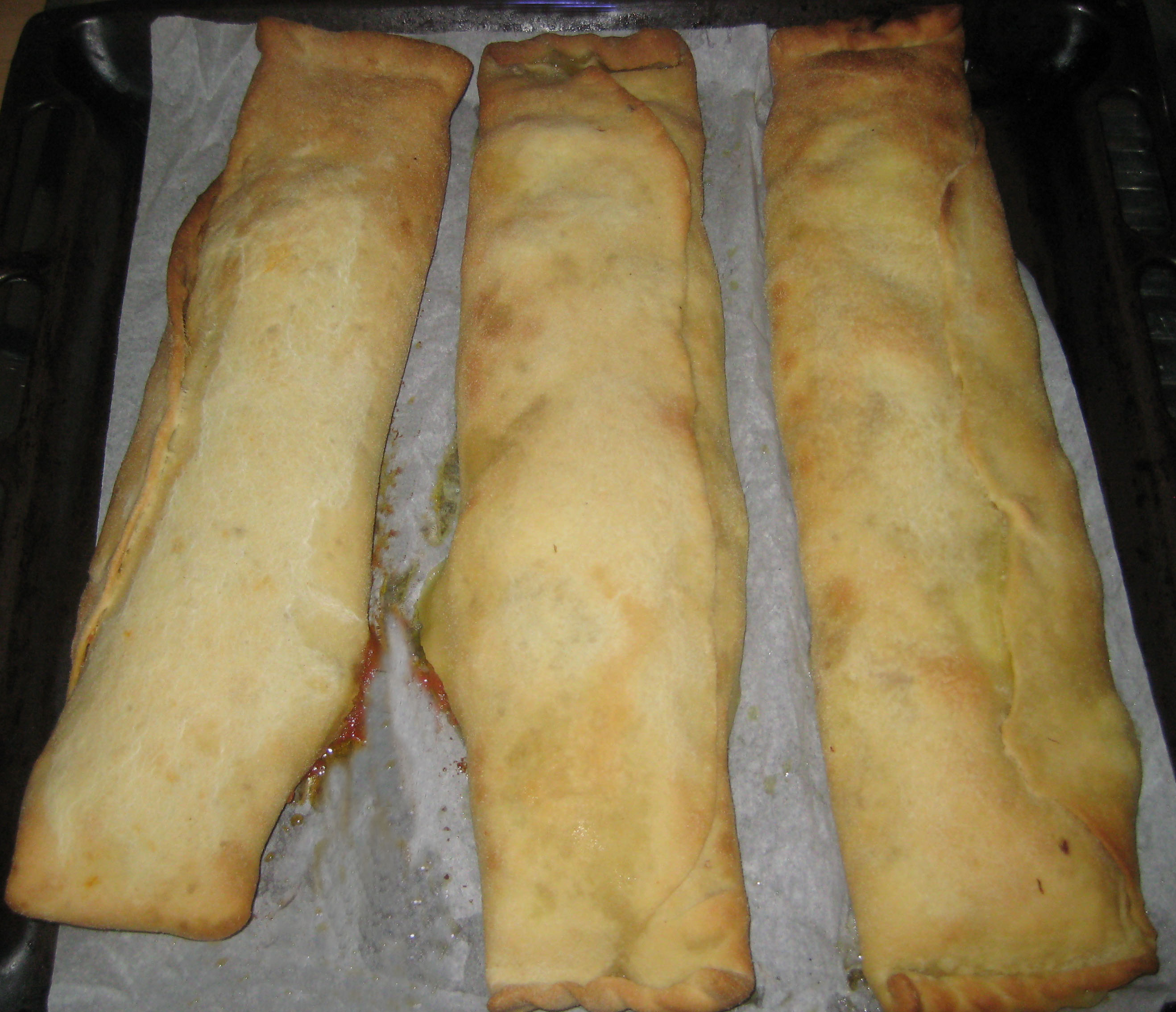 Typical Sicilian food